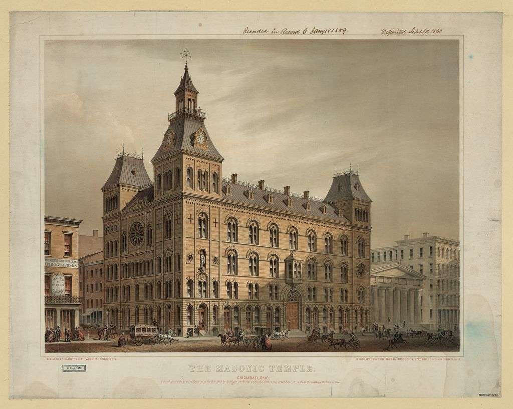 Cincinnati Masonic Temple, circa 1860 architect John R. Hamilton